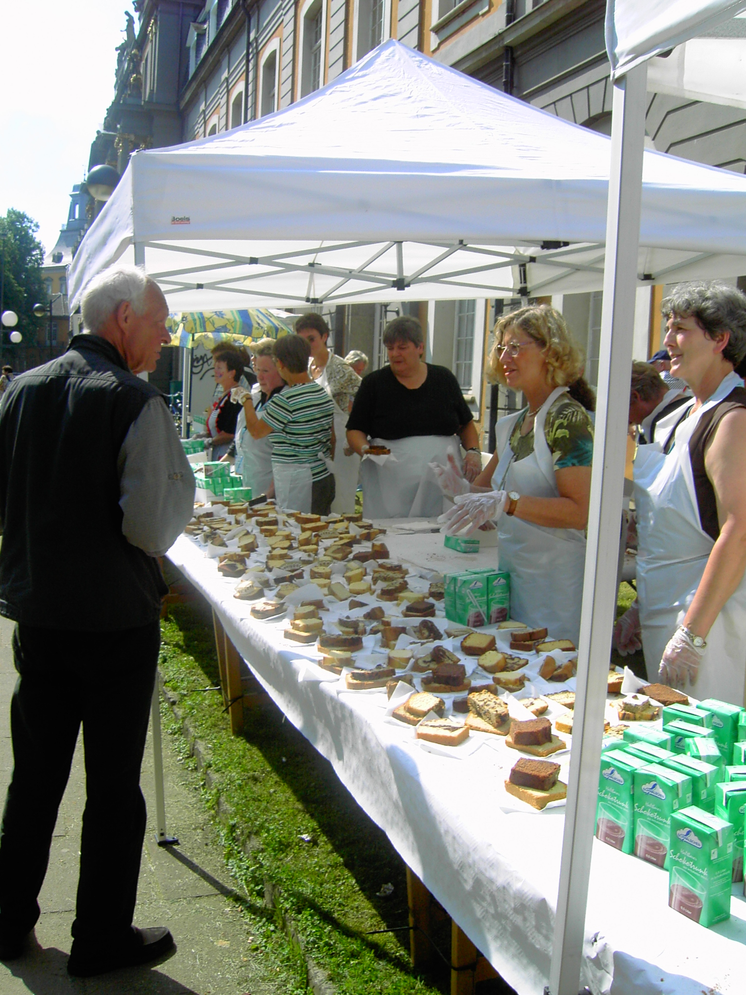 Sharing of cakes to the WYD 2005 pilgrims at „Alter Zoll“, Bonn